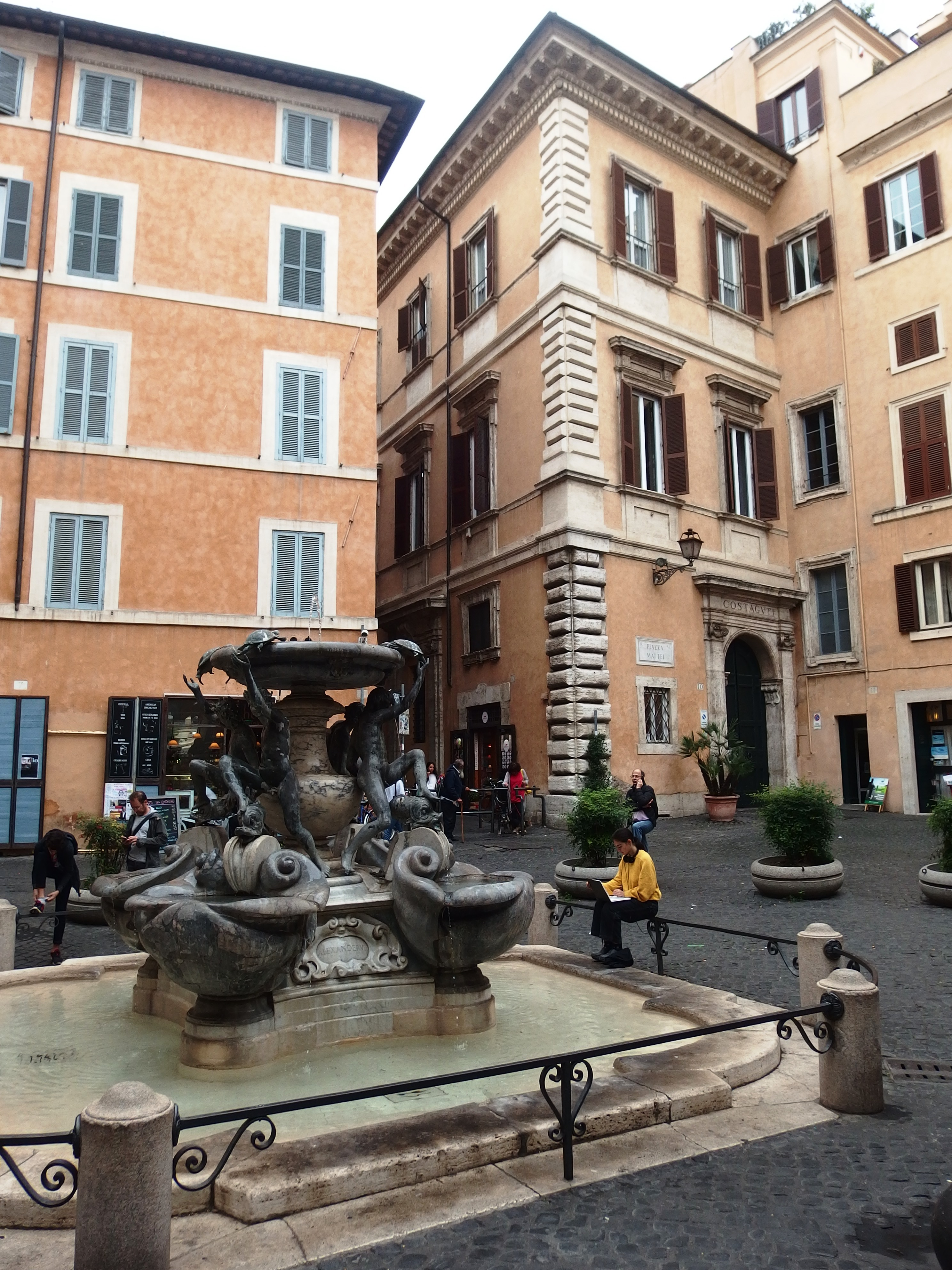 Rome, Italy. Mattei Square, the Turtle Fountain.